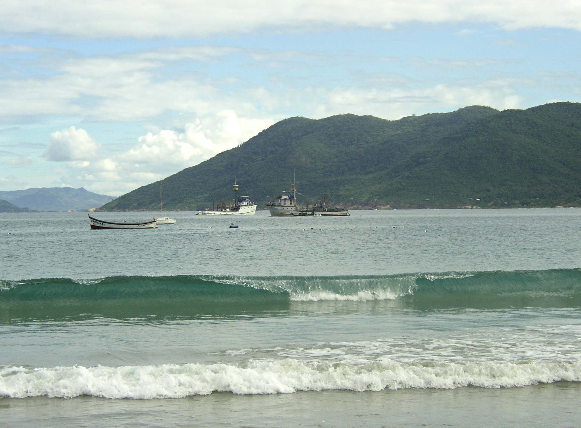 Beach and fishing-boats. Location: Pantanal do Sul, Florianópolis, SC, Brazil.